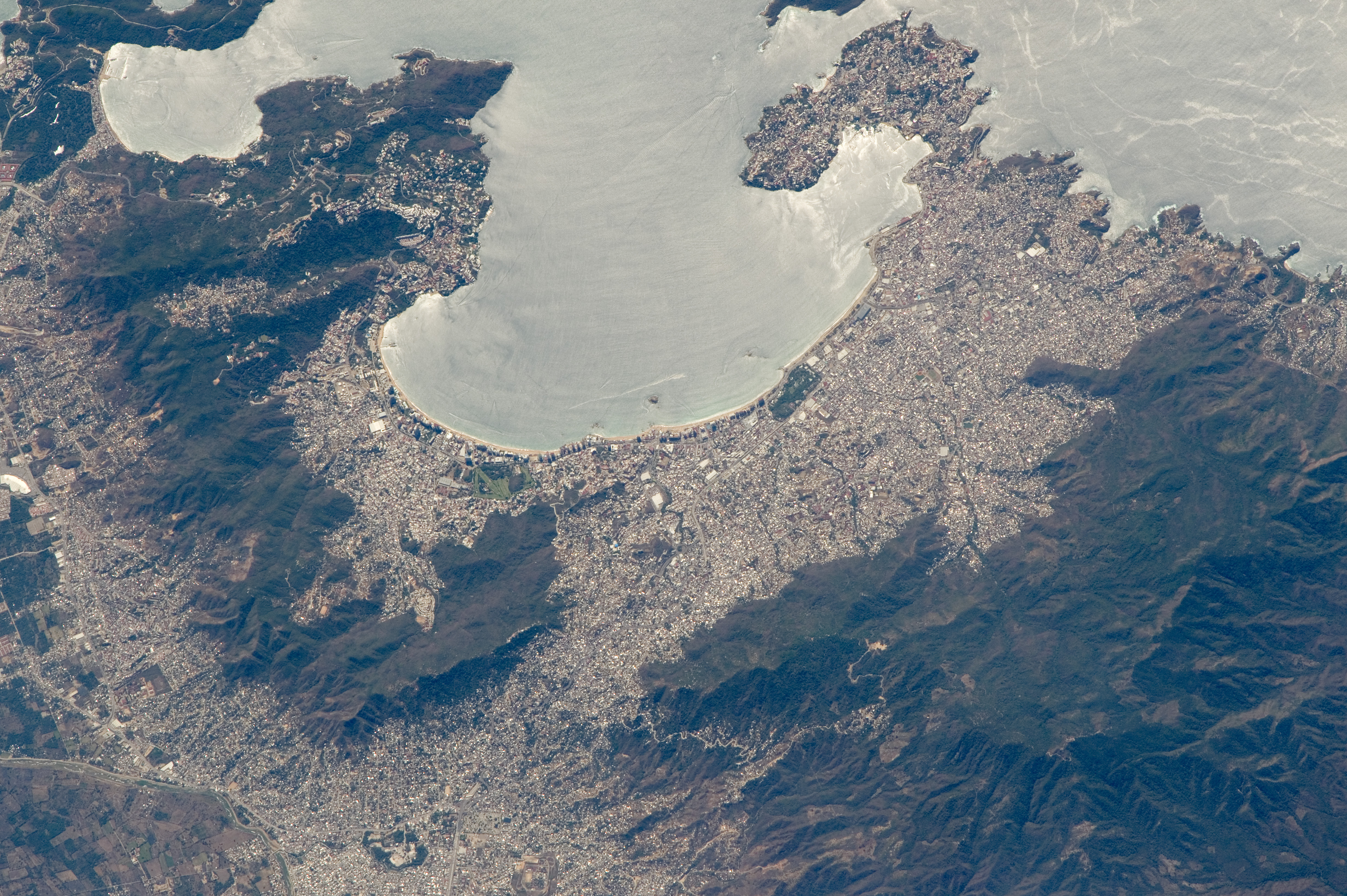 NASA astronaut Tim Kopra tweeted this image with the comment: "#Acapulco @Mexico looks amazing from here. #ISS #Explore"